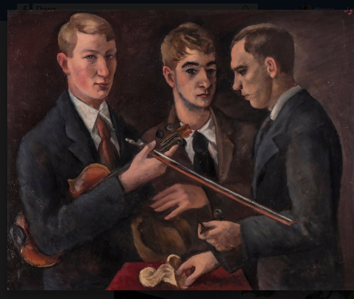 Jāzeps Grosvalds. Three artists (Valdemars Tone, Konrāds Ubāns, Aleksandr Drevin). 1915. Latvian National Museum of Art